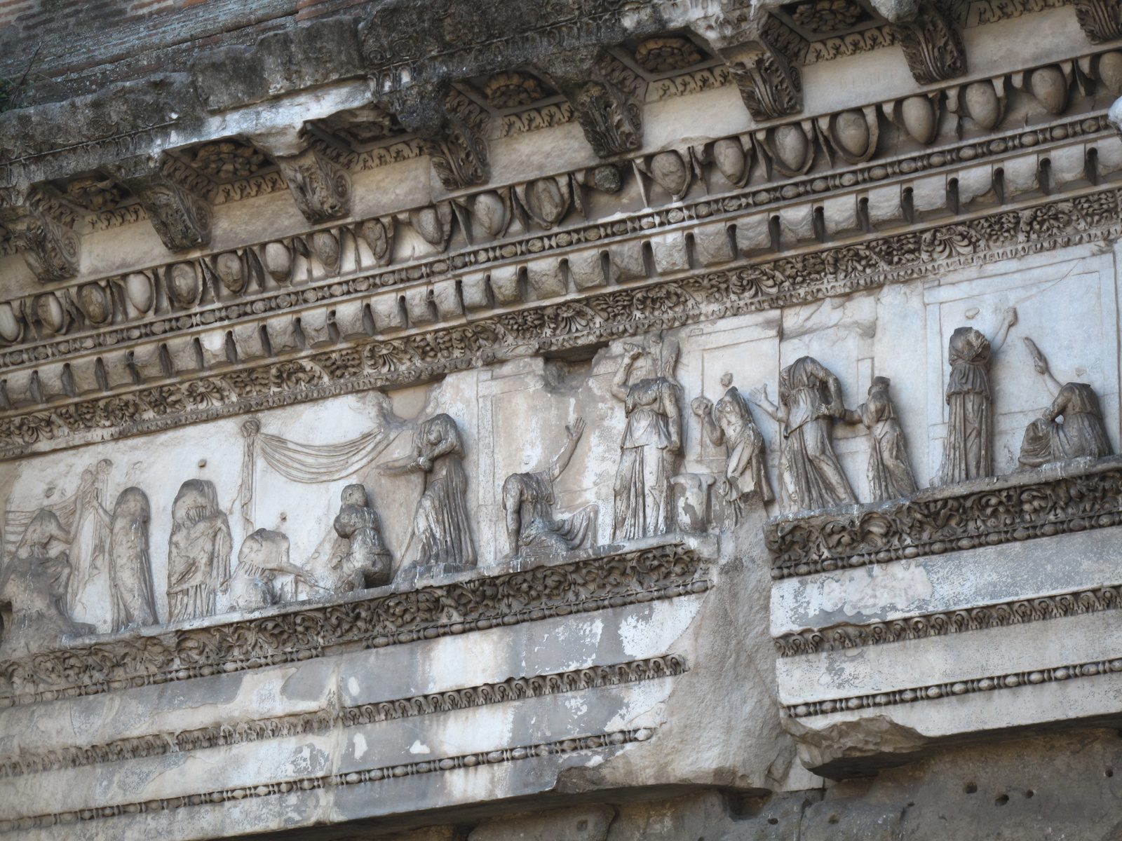 AWIB-ISAW: Forum of Nerva (II) This detailed view shows the repeating scenes on the peristyle surrounding the Forum of Nerva, showing mostly scenes connected to Minerva. by R Rumora (2012) copyright: 2012 R Rumora (used with permission) photographed place: Roma (Rome) Published by the Institute for the Study of the Ancient World as part of the Ancient World Image Bank (AWIB). Further information